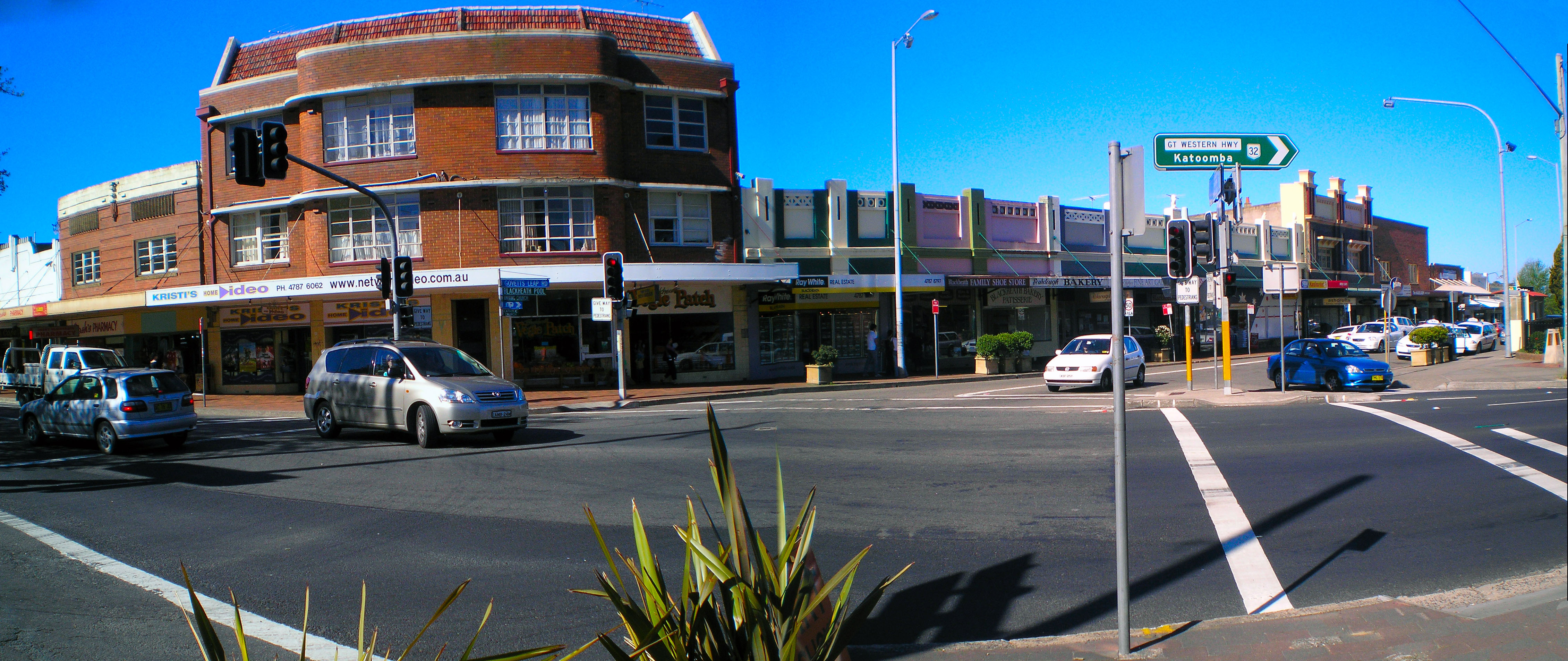 A 2 image panorama of the main intersection at Blackheath, NSW. I made this myself using my Olympus FE-140, and cleaned it up in Adobe Photoshop CS2.